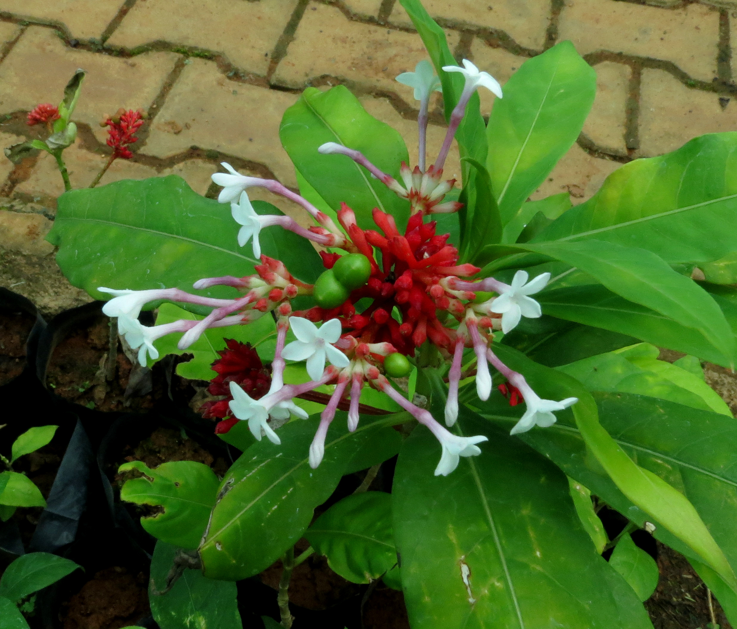 Rauvolfia serpentina in FRLHT Bangalore